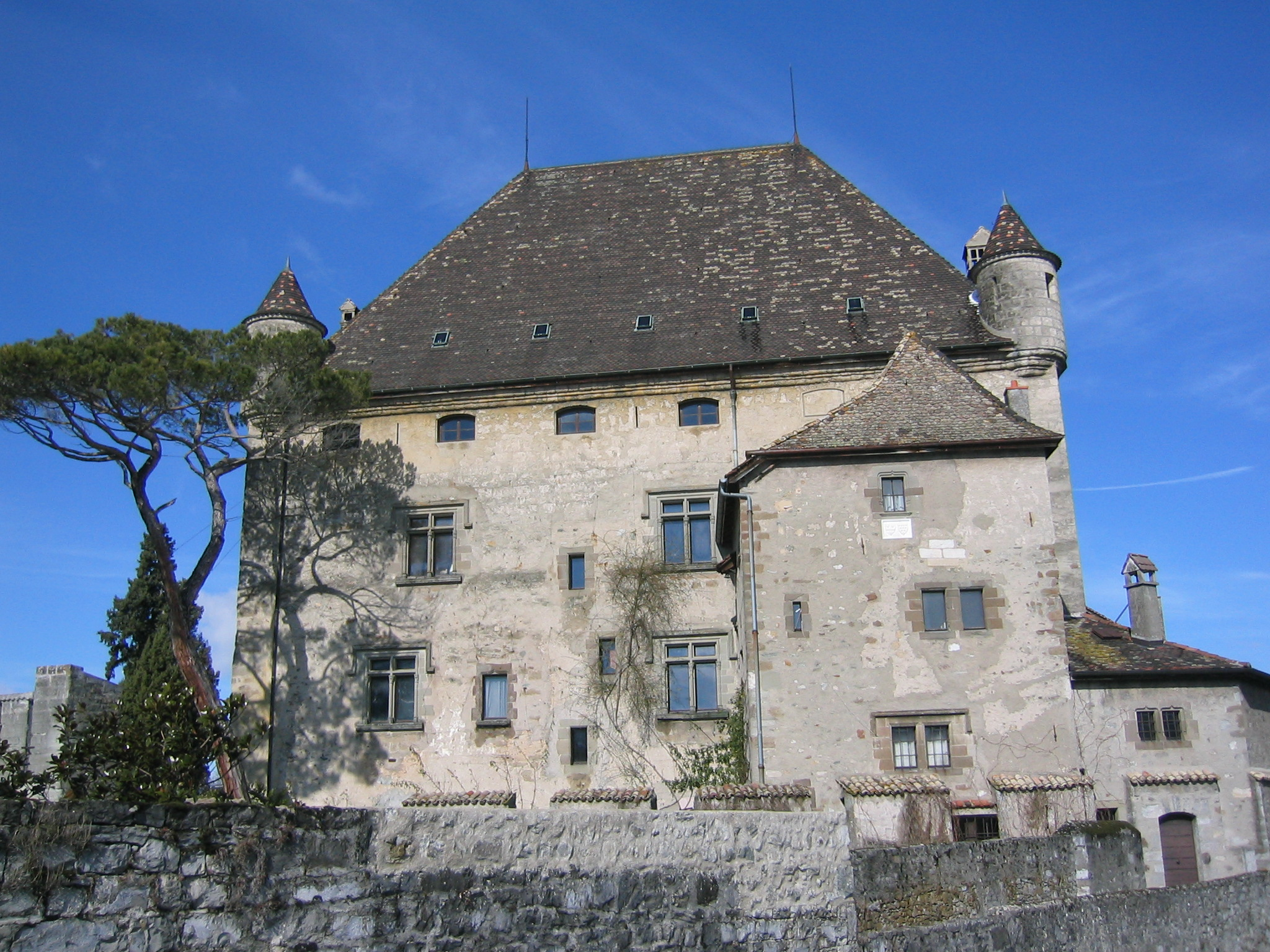 Yvoire castle (Haute-Savoie, France)